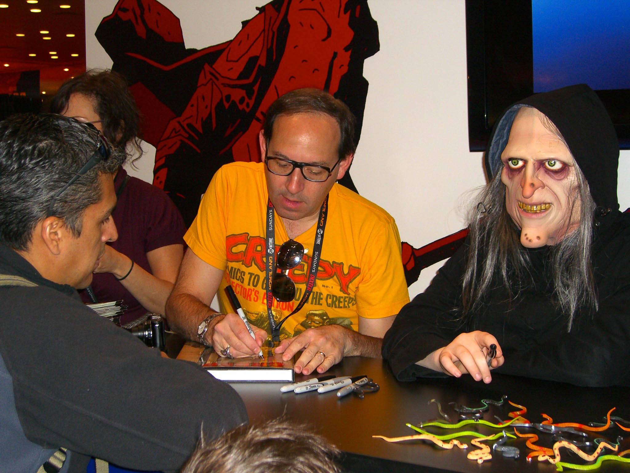 Comics creator Dan Braun signing copies of the relaunched Creepy and Eerie next to a model dressed as Uncle Creepy at the Dark Horse Comics booth during an October 16, 2011 appearance at the New York Comic Con in Manhattan. This photo was created by Luigi Novi. It is not in the public domain, and use of this file outside of the licensing terms is a copyright violation.